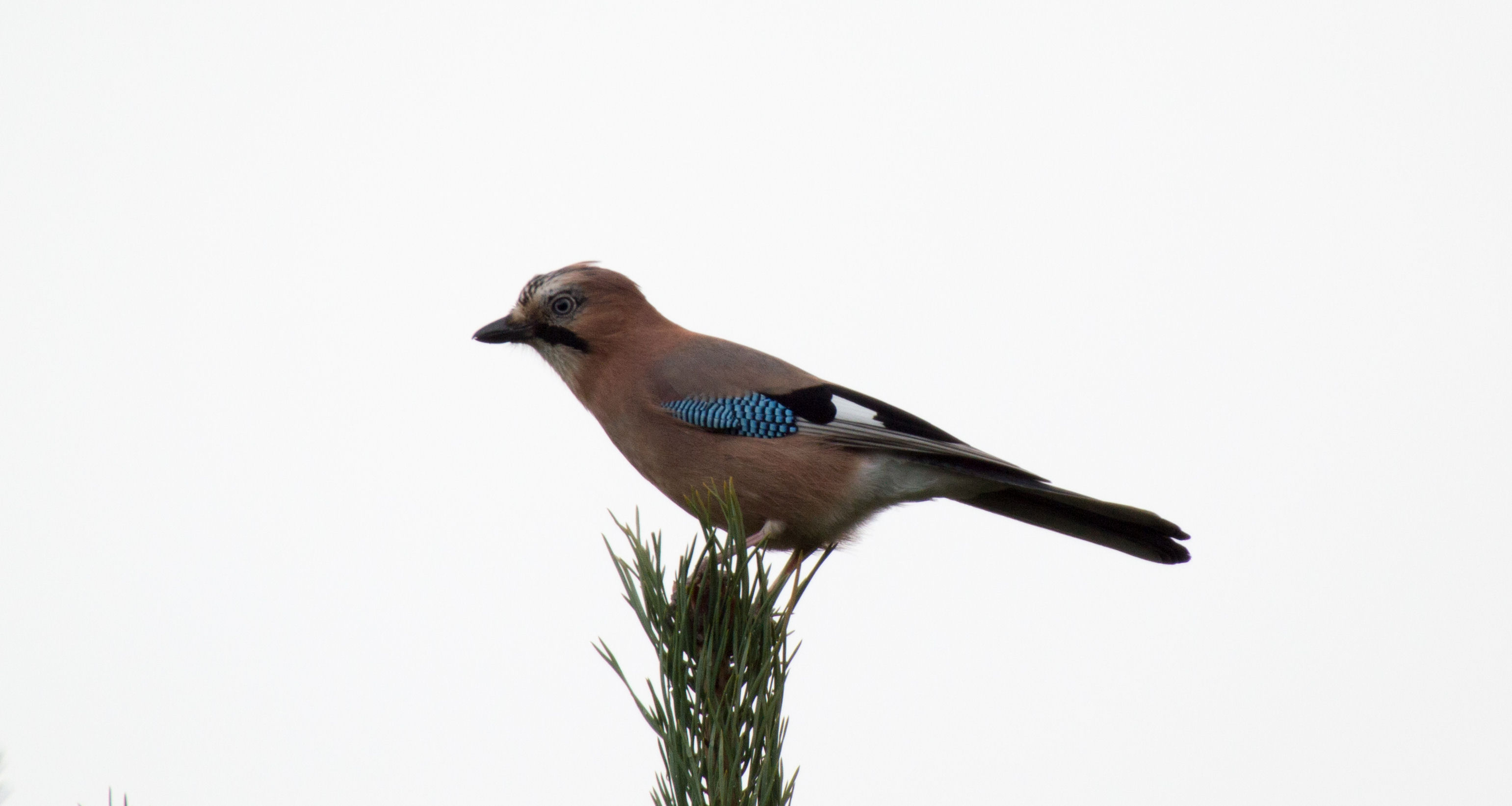 Eurasian Jay